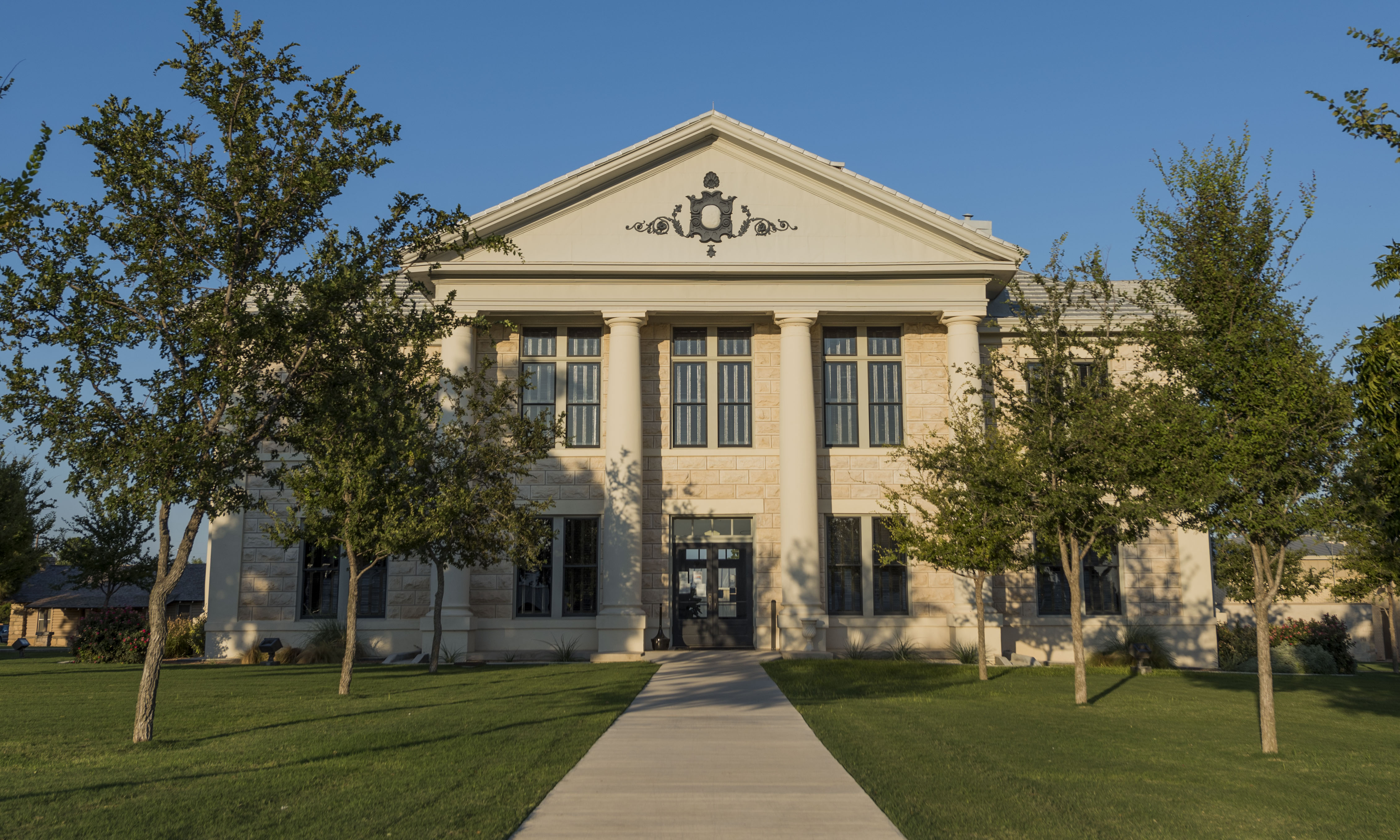 Photograph of the Glasscock County, Texas Courthouse taken in October 2019.